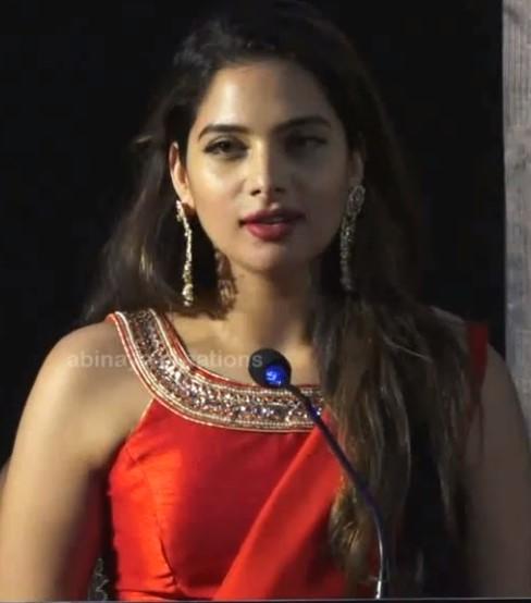 Tanya Hope during 'Thadam' audio launch